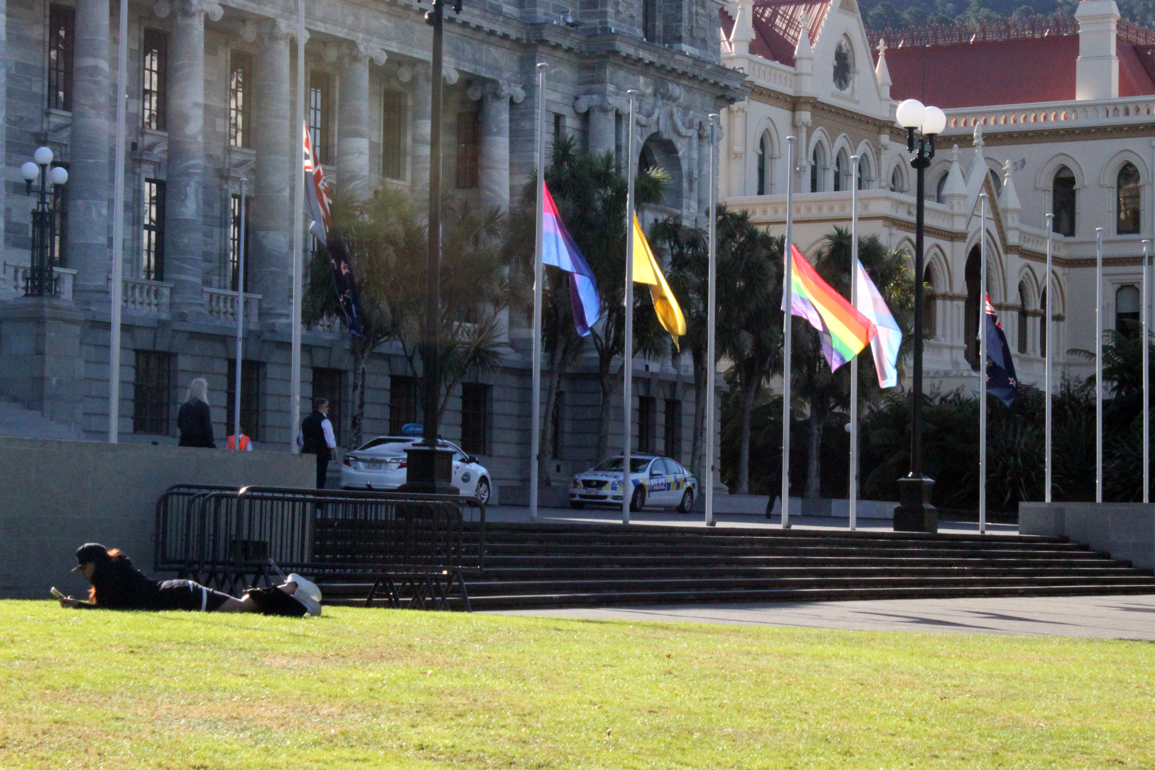 The Bisexual, Intersex, Rainbow and Transgender flags were flown at New Zealand's Parliament to mark the beginning of the ILGA World Conference 2019. They were flown at half-mast, along with New Zealand's national flag, in memory of those killed in the Christchurch mosque massacres on 15 March 2019.